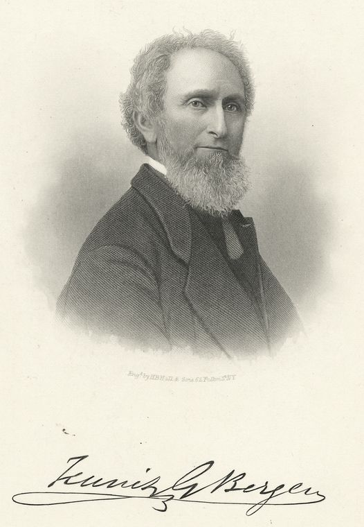 Portrait of Teunis G. Bergen, courtesy of the New York Public Library Digital Collection